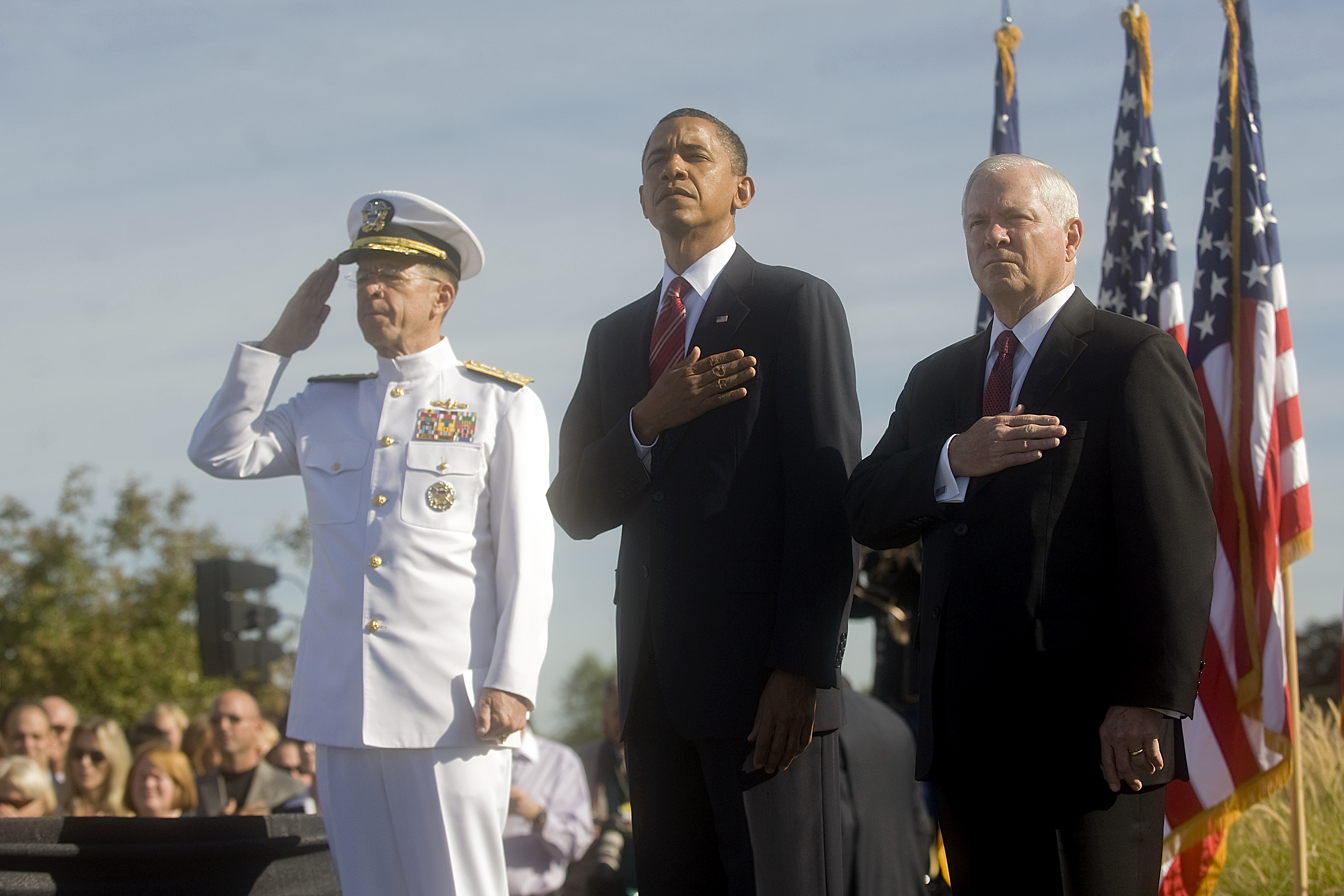 WASHINGTON (Sept. 11, 2010) Chairman of the Joint Chiefs of Staff Adm. Mike Mullen, President Barack Obama and Defense Secretary Robert M. Gates render honors during the playing of the national anthem at the Pentagon Memorial, during a ceremony marking the ninth anniversary of the September 11 attacks, Sept. 11, 2010. (Defense Department photo by Cherie Cullen/Released)